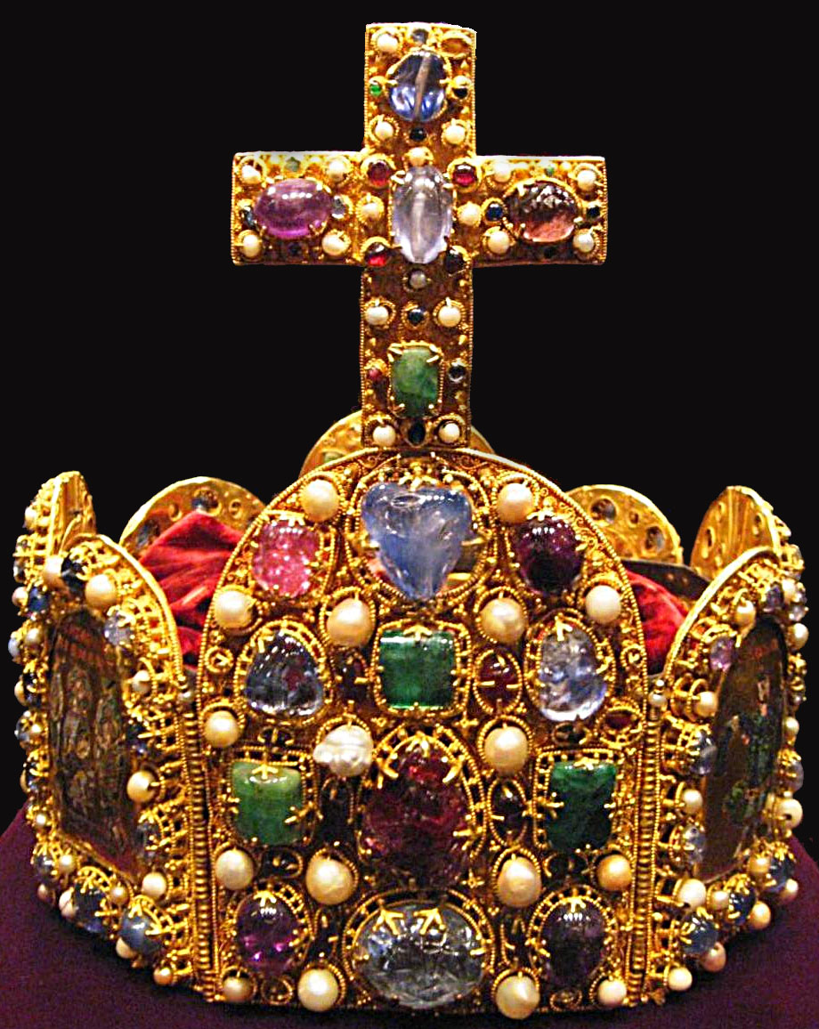 clean up version of earlier photo Description